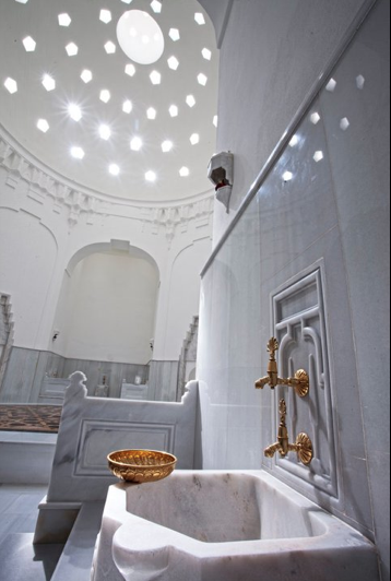 During the restoration pure white Marmara marble has been used. Faucets and bath bowls are gold plated.